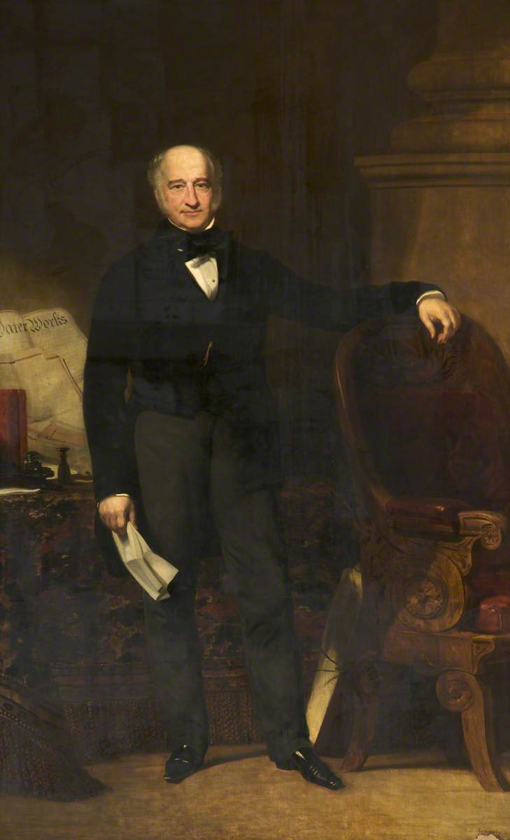 Patten, George; Elkanah Armitage; Manchester Town Hall